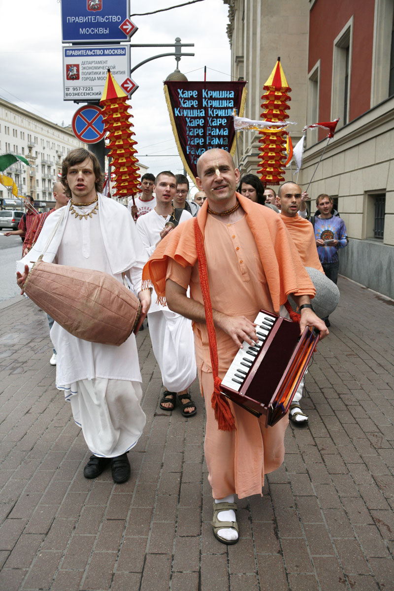 Russian Hare Krishnas singing on the street in Moscow